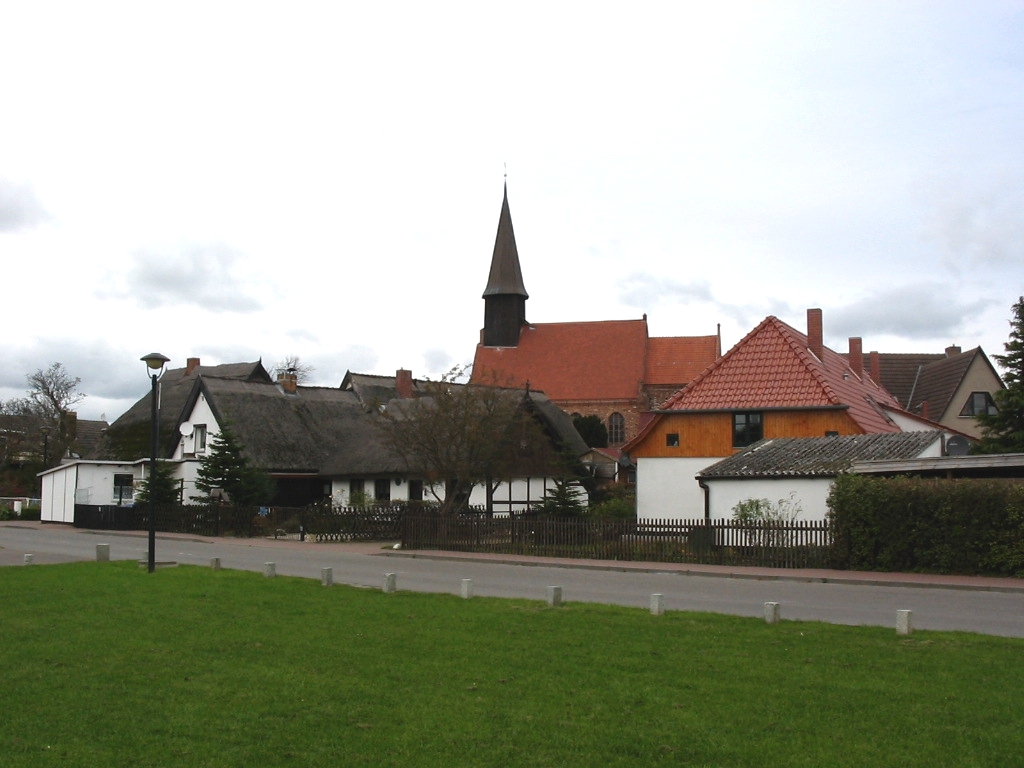 Schaprode at Rügen island, Germany